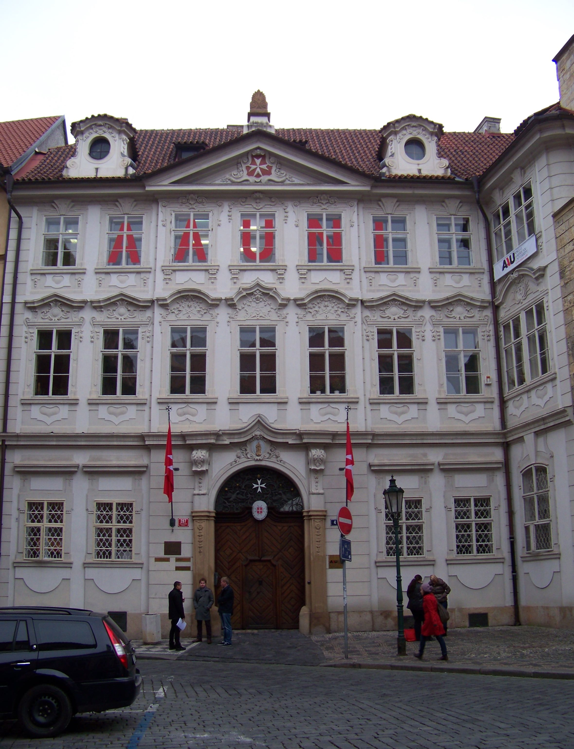 Prague-Malá Strana, the Czech Republic. Lázeňská 287/4. Anglo-American University.